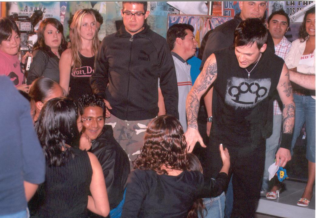 Good Charlotte at MTV Mexico